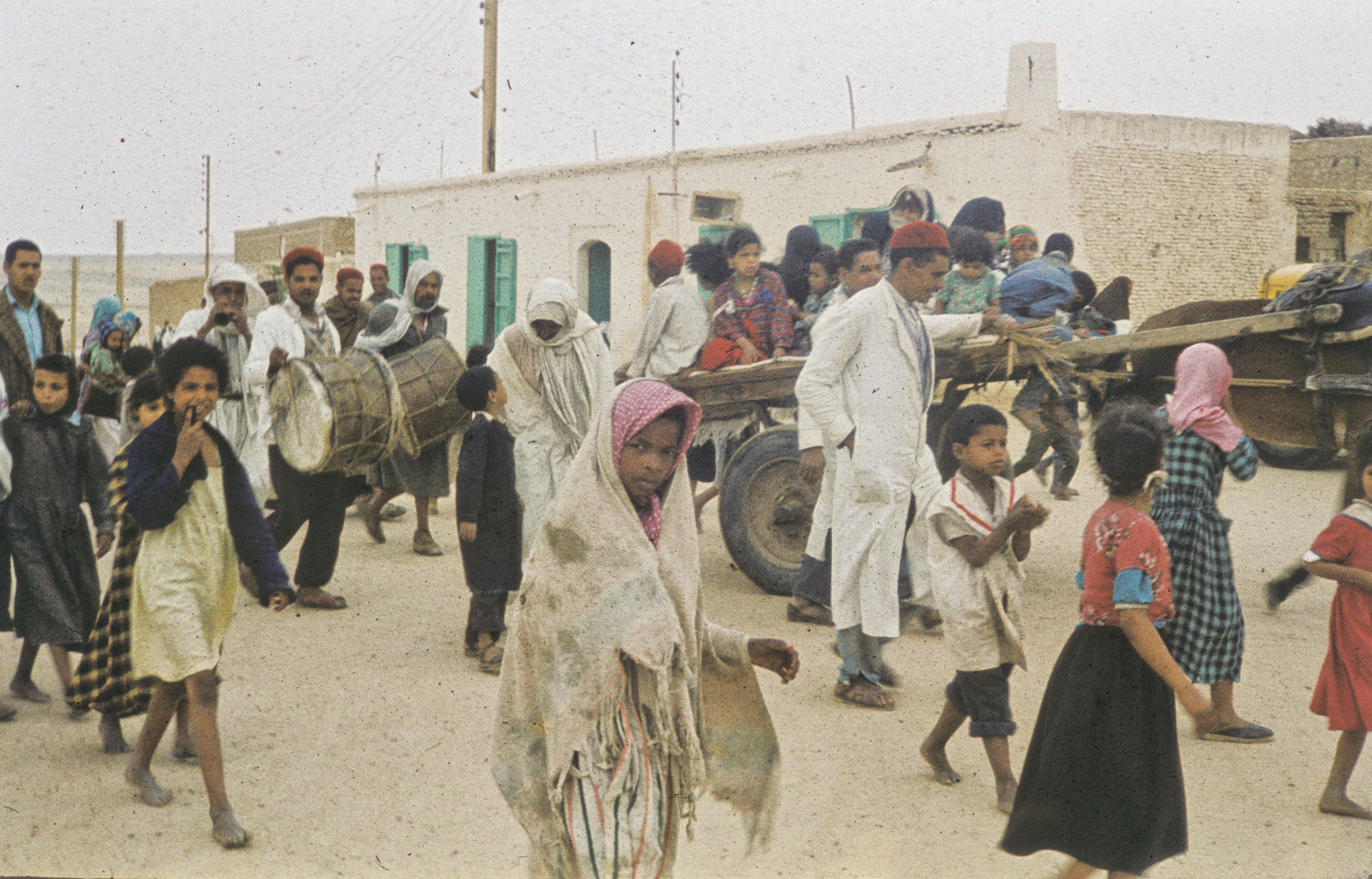 Tunisia (1960, locality unknown)